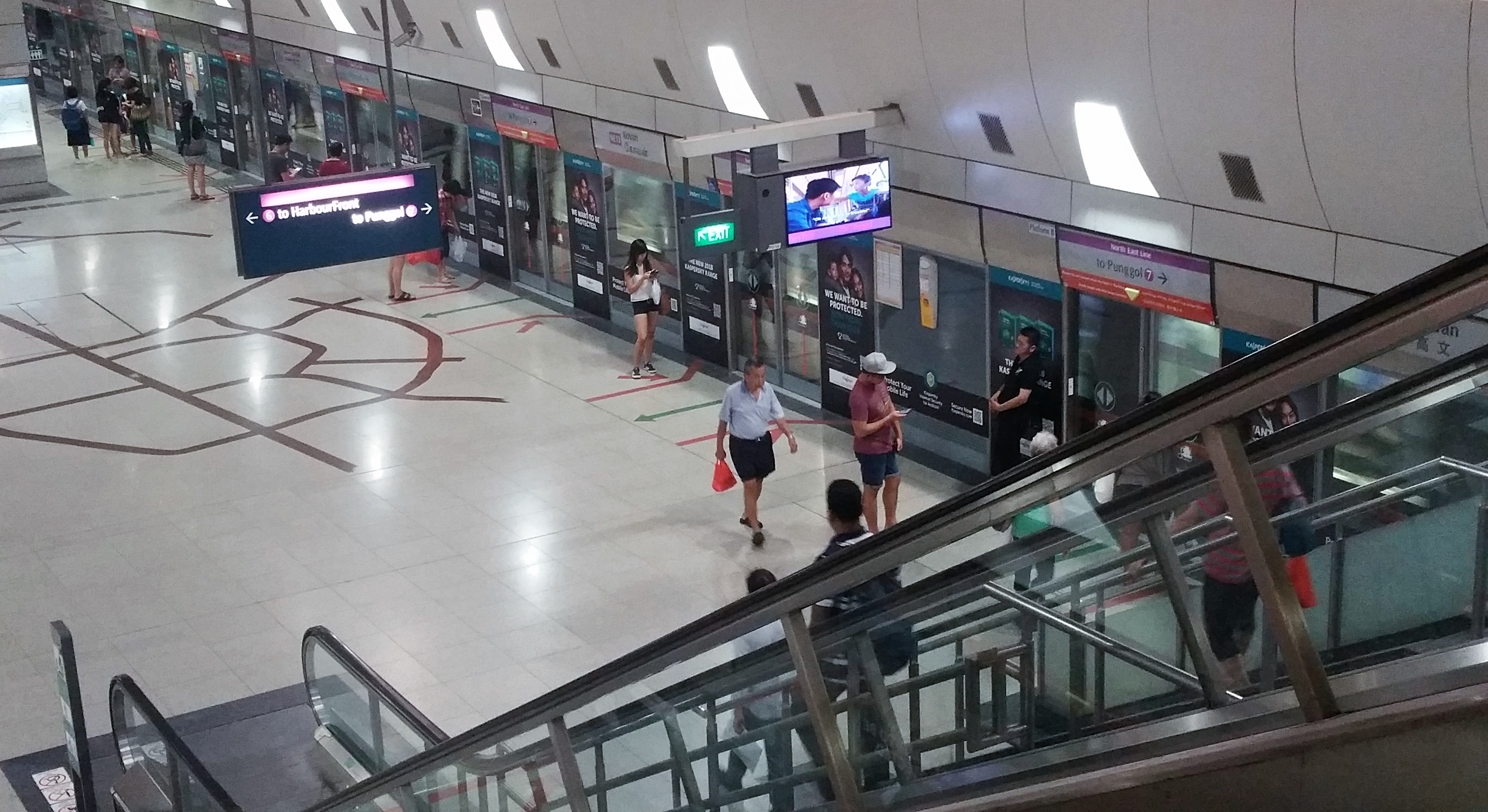 Kovan MRT Station